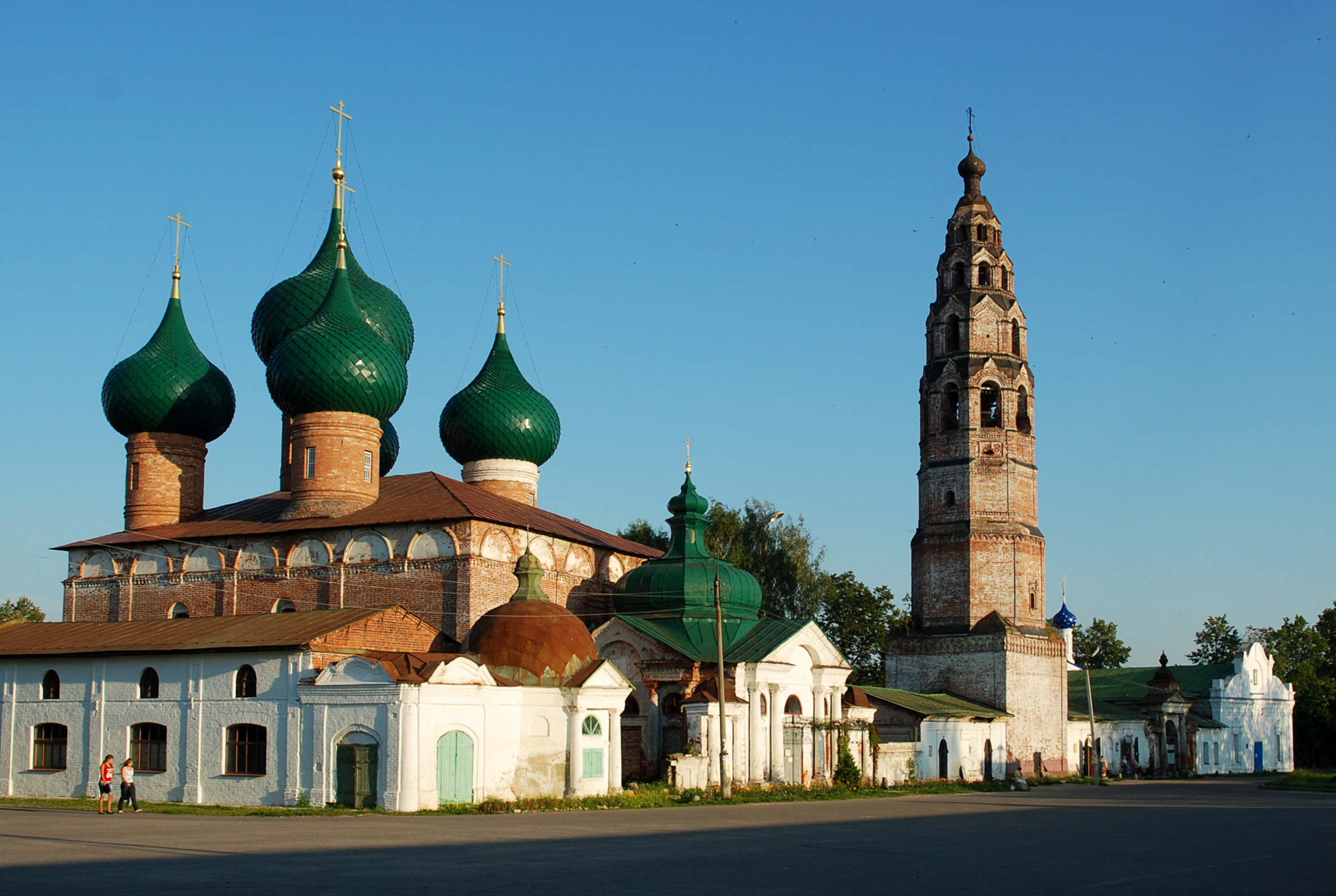 The central ensemble of Velikoye selo, Yaroslavl oblast